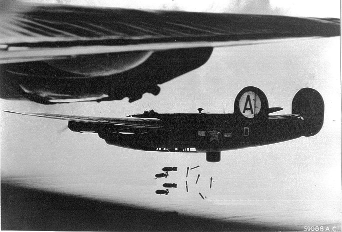 482d Bomb Group B-24s from RAF Alconbury, England, on bomb run over occupied Europe.